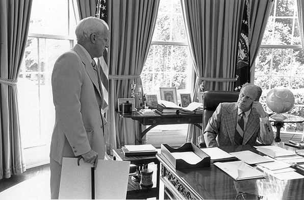 President Gerald Ford with Philip Buchen, Counsel to the President, in the Oval Office